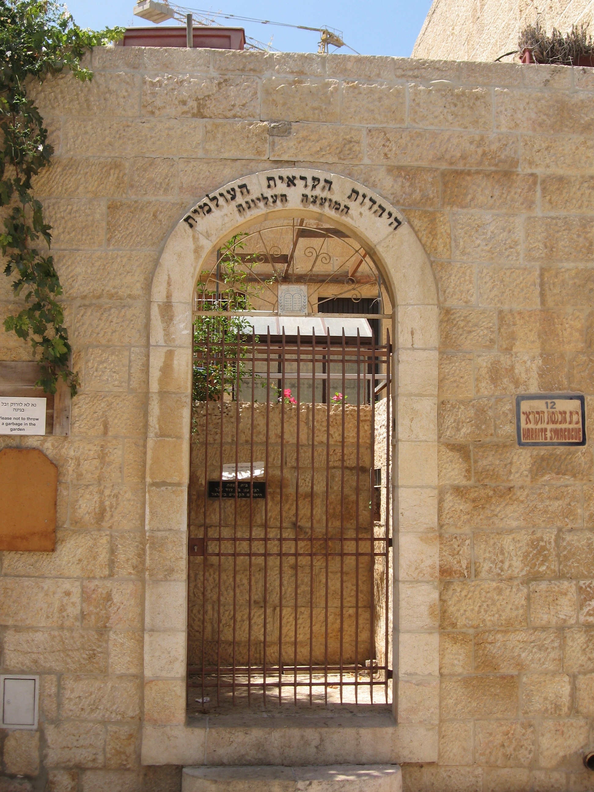 KARAITE SYNAGOGUE in the Old city of Jerusalem